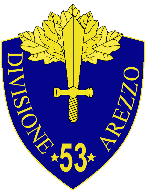 53a Divisione Fanteria Arezzo insignia, Regio Esercito, Italy, WWII